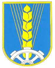 Coats of arms of the district of Niesky (1947–1952).